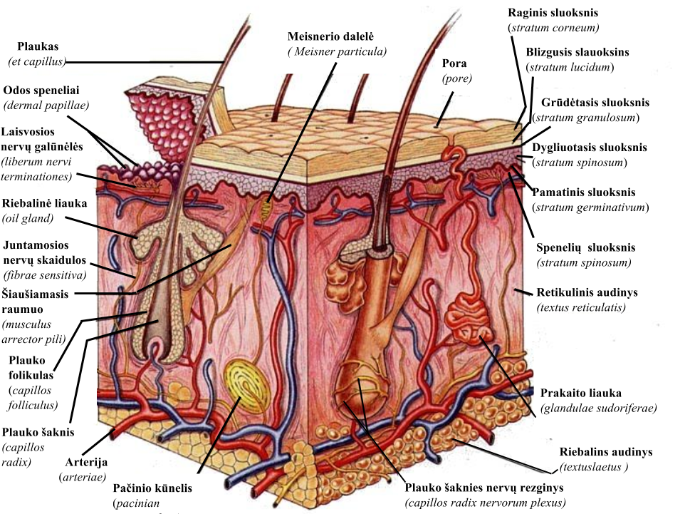 Odos sandara